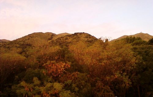 Picture of the Sierras Chicas, in the town of Los Cocos, in the evening.